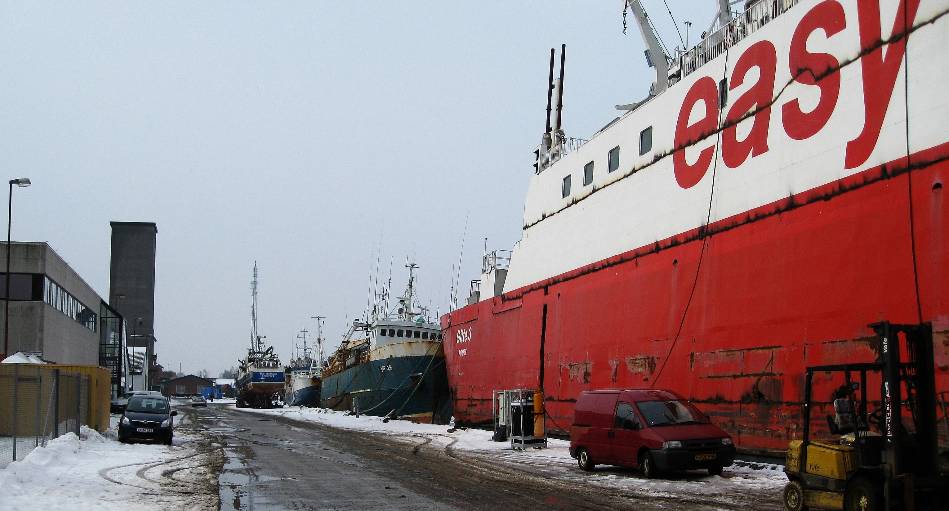 Fornæs Shipwrecking in Grenaa, Denmark